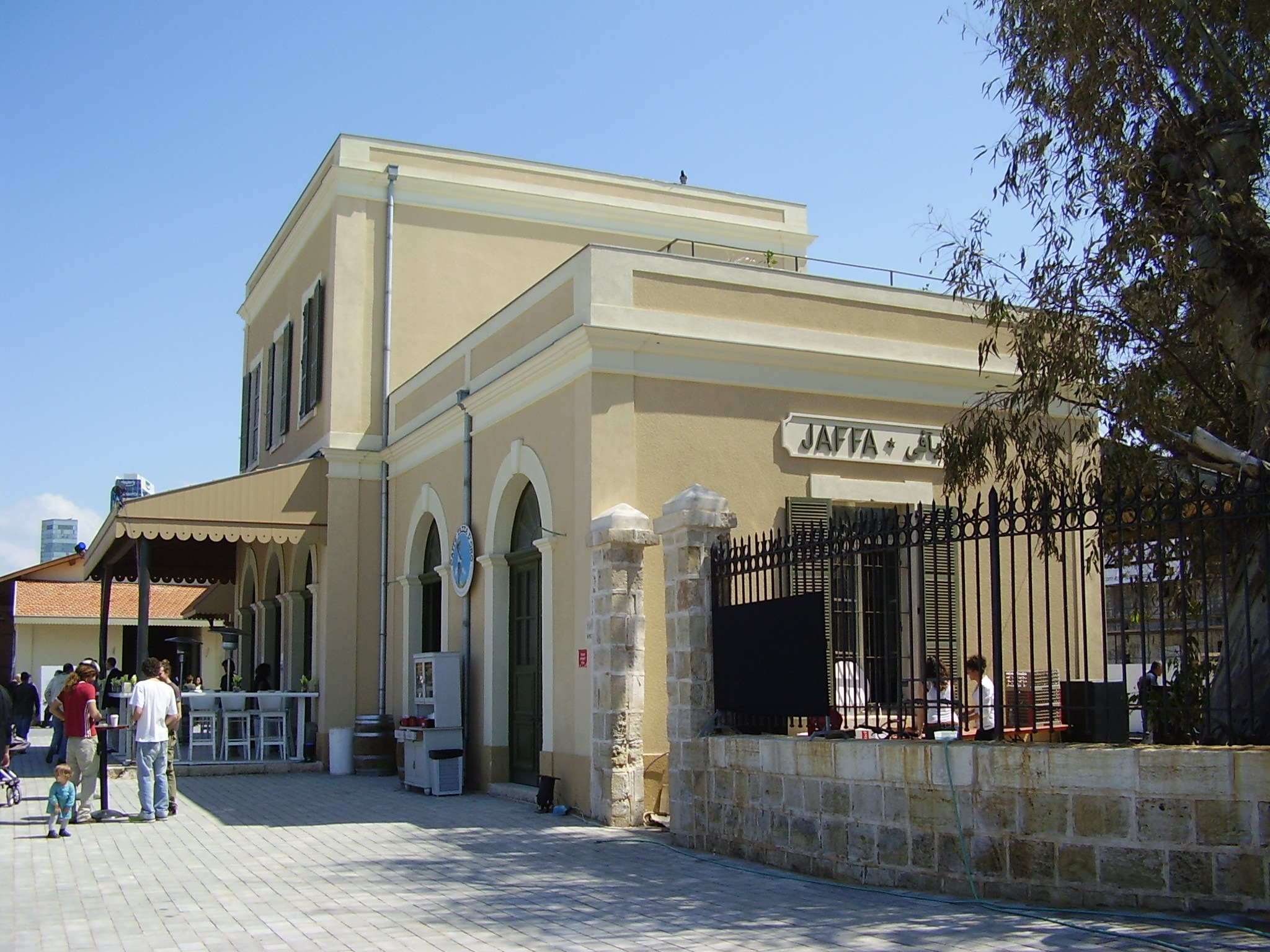 jaffa train station